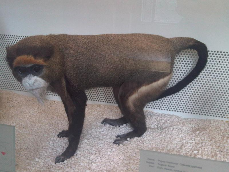 Taxidermied De Brazza's monkey (Cercopithecus neglectus) at the Natural History Museum in London, England.